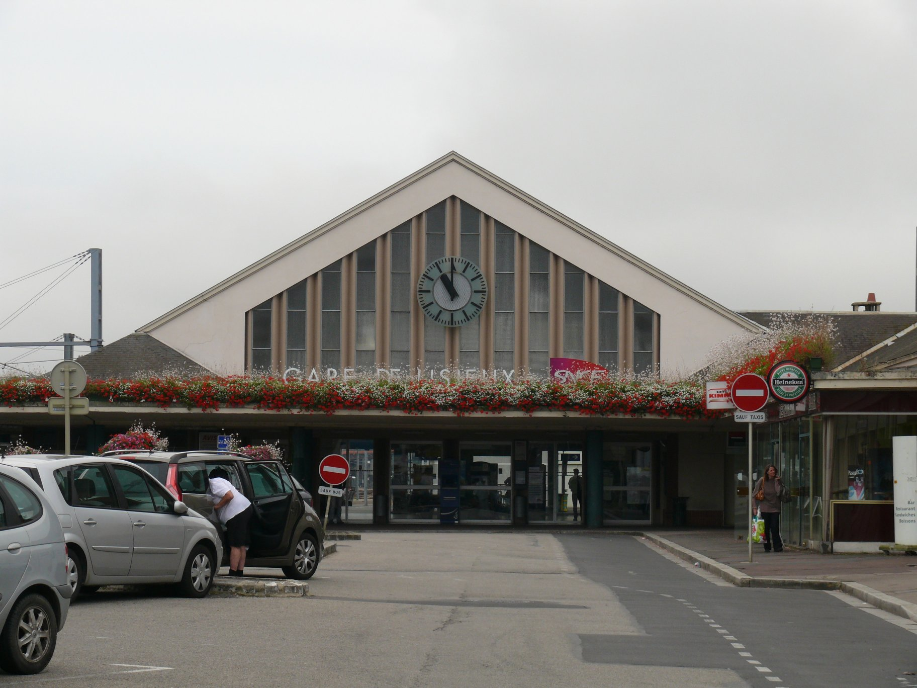 Lisieux train station (Calvados, Normandie, France).